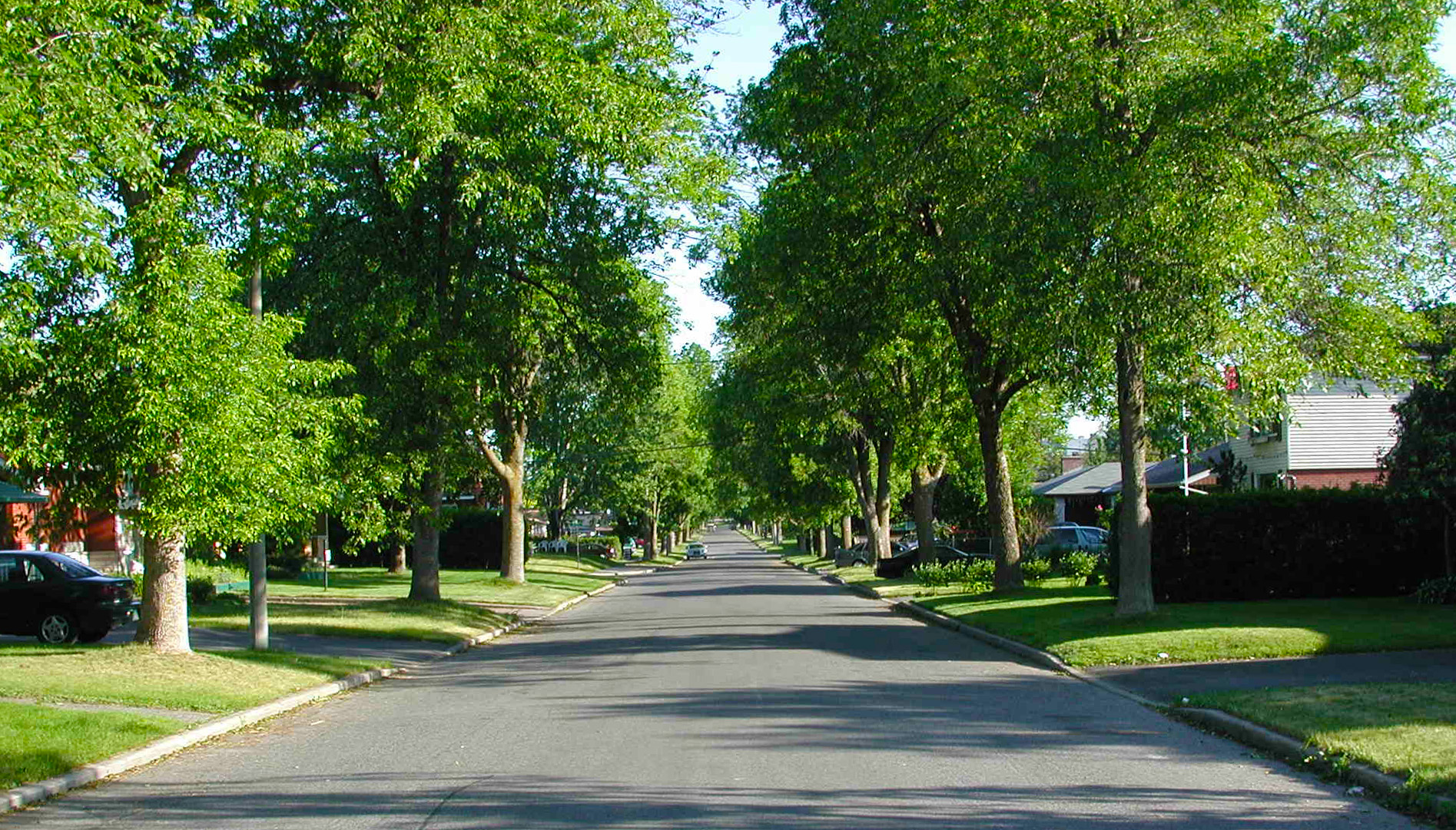 A straight street in a 1950s suburb showing low density single family detached housing, wide Right of Way, and generous set backs from the property line.